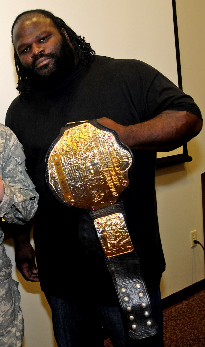 Mark Henry, WWE's World Heavyweight Champion, visits soldiers at Fort Bragg on December 9, 2011.